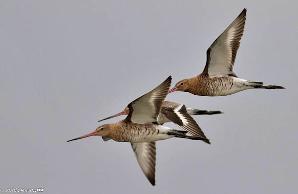 Limosa limosa, Bundala, Sri Lanka